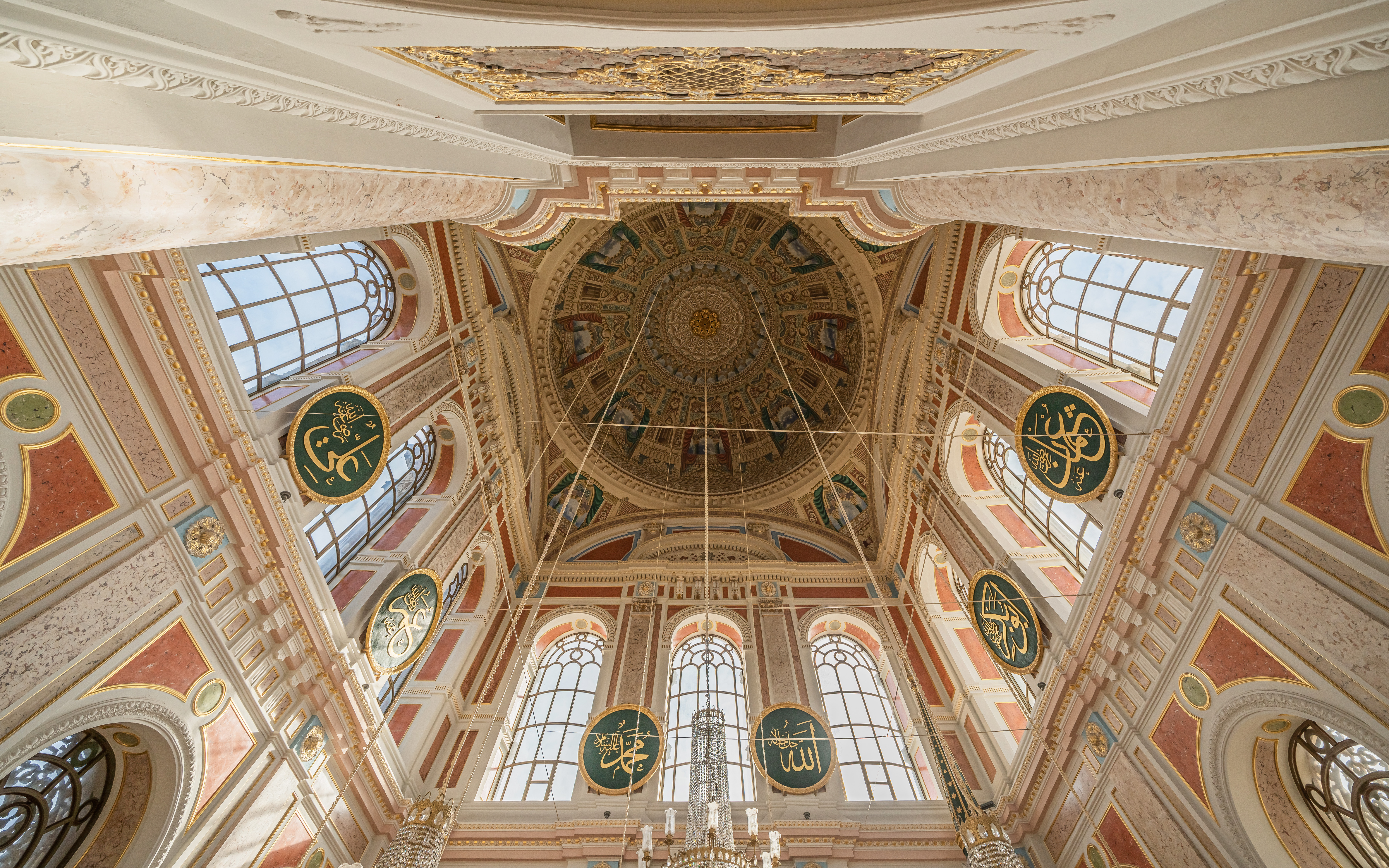 Ortaköy Mosque in Istanbul, Turkey